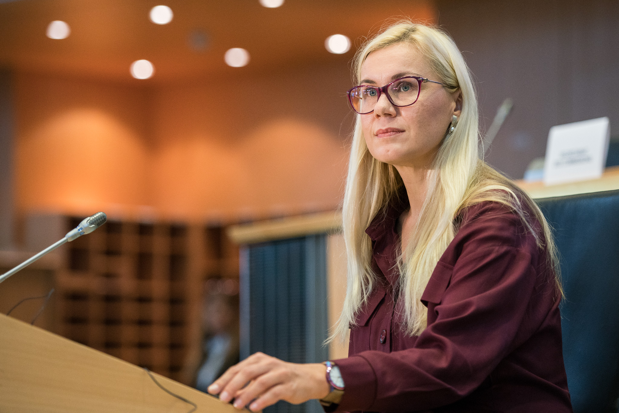 Before the European Parliament can vote the new European Commission led by Ursula von der Leyen into office, parliamentary committees will assess the suitability of commissioners-designate. On 23-26 May, more than 200,000,000 people in 28 EU countries went to the polls to elect members of the European Parliament, giving them a strong democratic mandate, including voting into office the new European Commission and examining the competencies and abilities of its commissioners-designate. Elected members of the European Parliament will also listen to their ideas and will assess their willingness to take concrete actions on the issues that Europeans care about. Each candidate commissioner is invited for a live-streamed, three-hour hearing in front of the committee or committees responsible for their proposed portfolio. The hearings will take place between Monday 30 September and Tuesday 8 October. This photo is free to use under Creative Commons license CC-BY-4.0 and must be credited: "CC-BY-4.0: © European Union 2019 – Source: EP". No model release form if applicable. For bigger HR files please contact: webcom-flickr(AT)